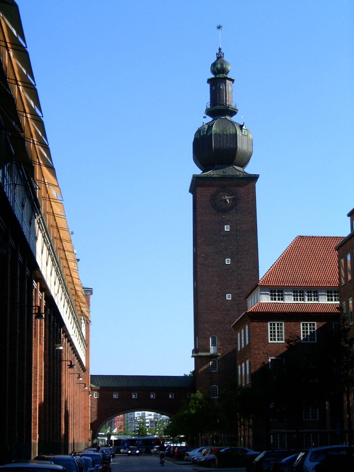 The ASEA Ottar tower in Västerås, Sweden.